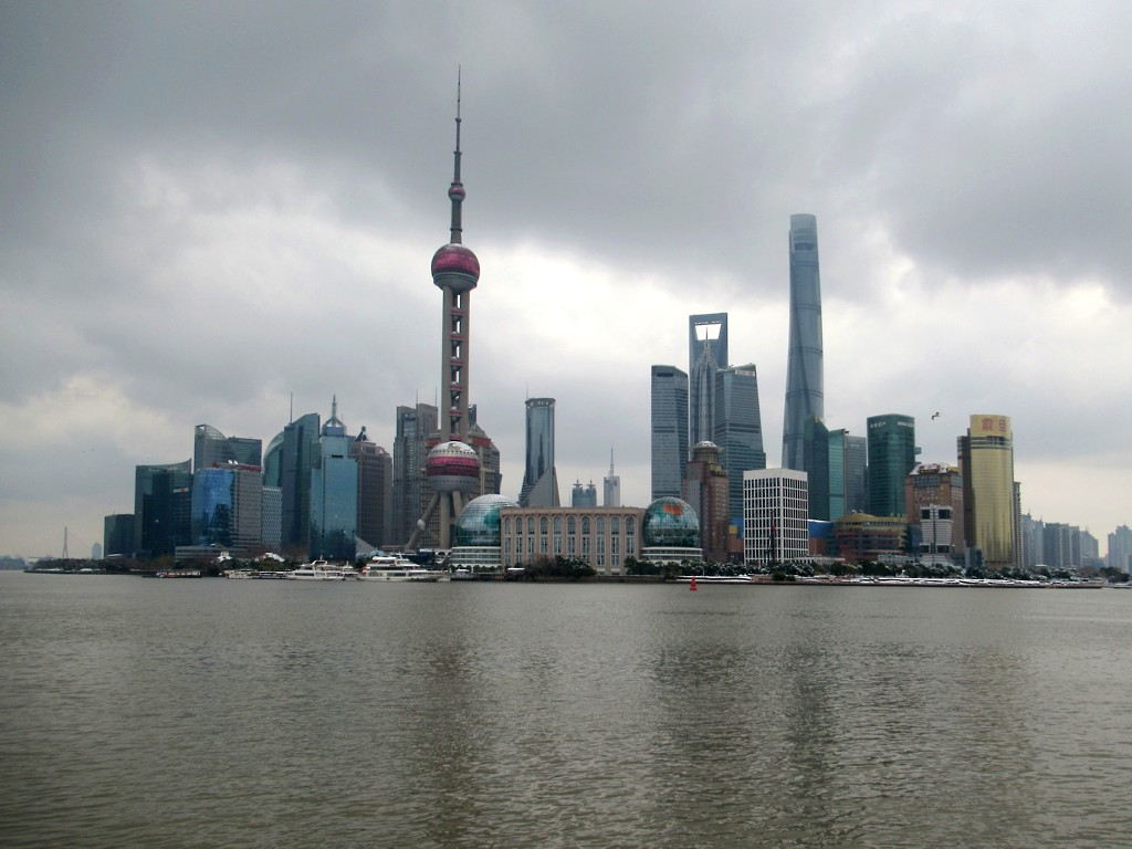 The skyline of Pudong at Shanghai, China, is constantly changing. The world's second tallest building, the 128-floor, 632-meter Shanghai Center Tower (2015), is to the right of the Oriental Pearl TV Tower (1991).